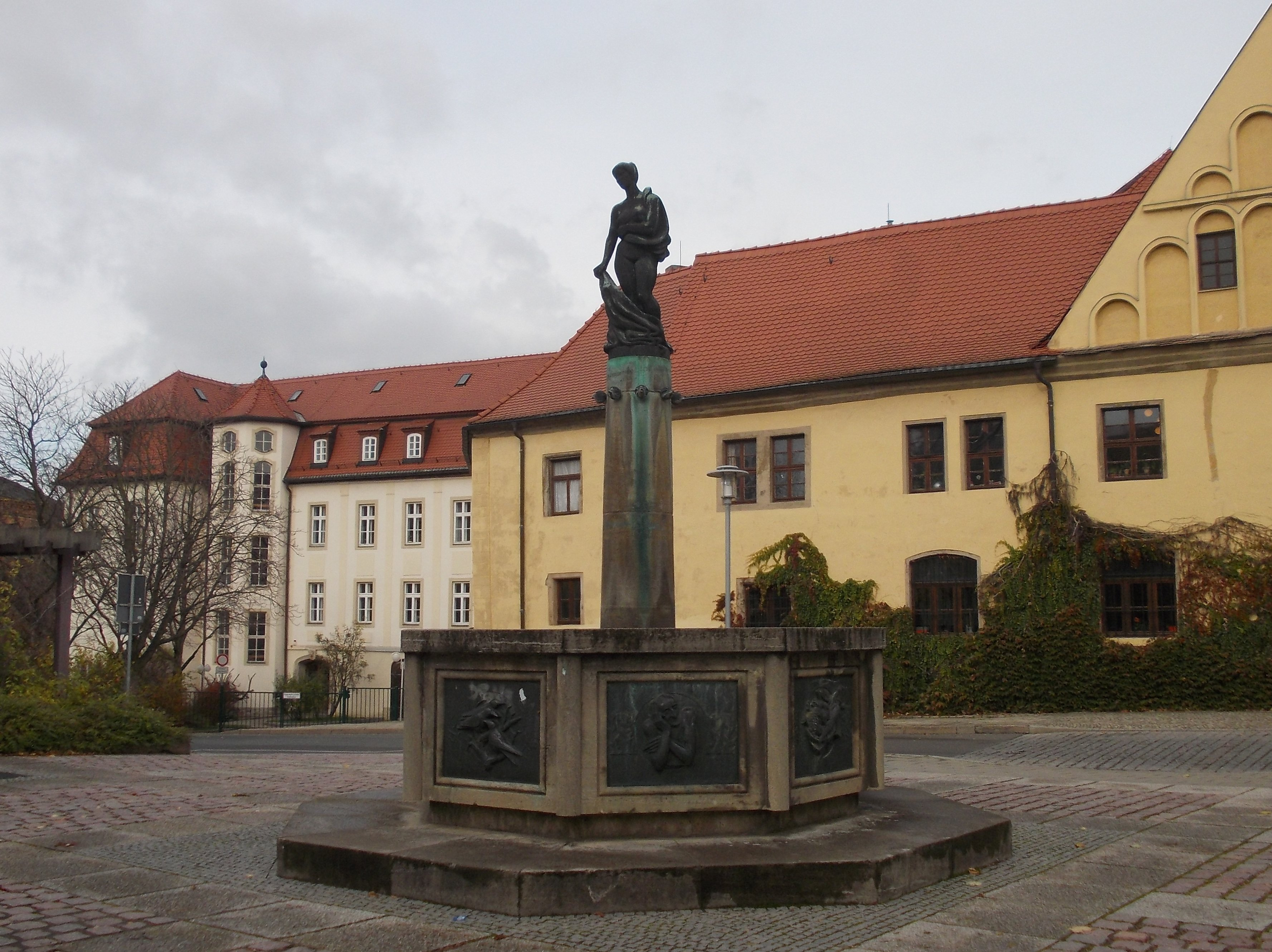 Fountain at Burgstraße in Merseburg (district: Saalekreis, Saxony-Anhalt)